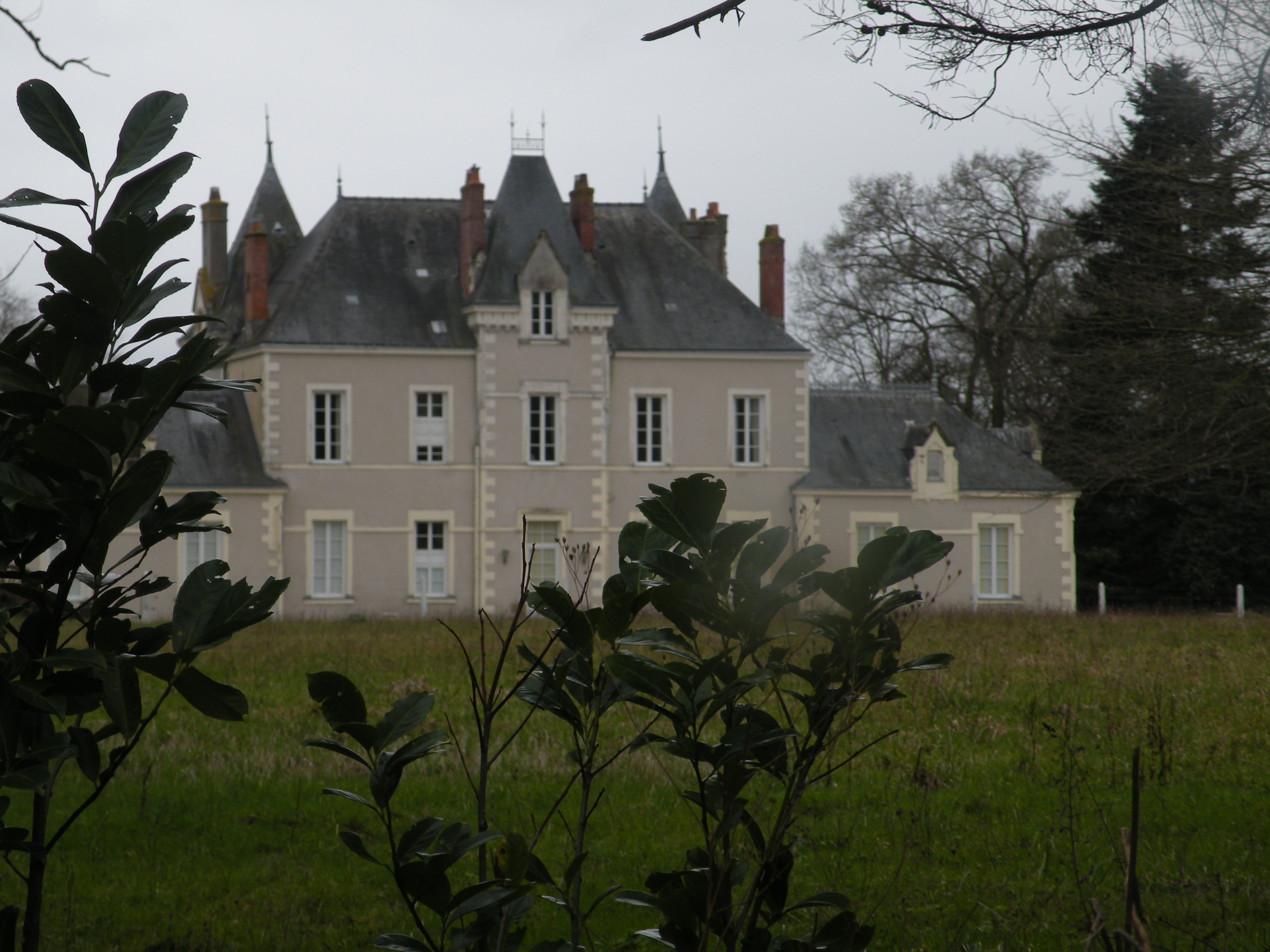 Chalonge castle in Héric